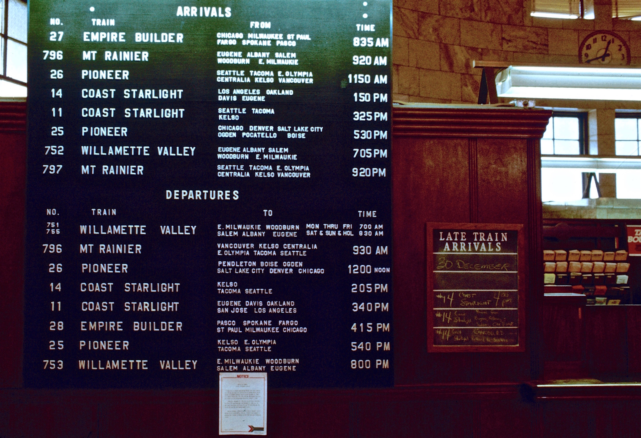 The arrivals and departures board inside Portland's Union Station on December 30, 1981. Among the trains listed is the Willamette Valley, which was discontinued after its operation on the following day, Dec. 31.